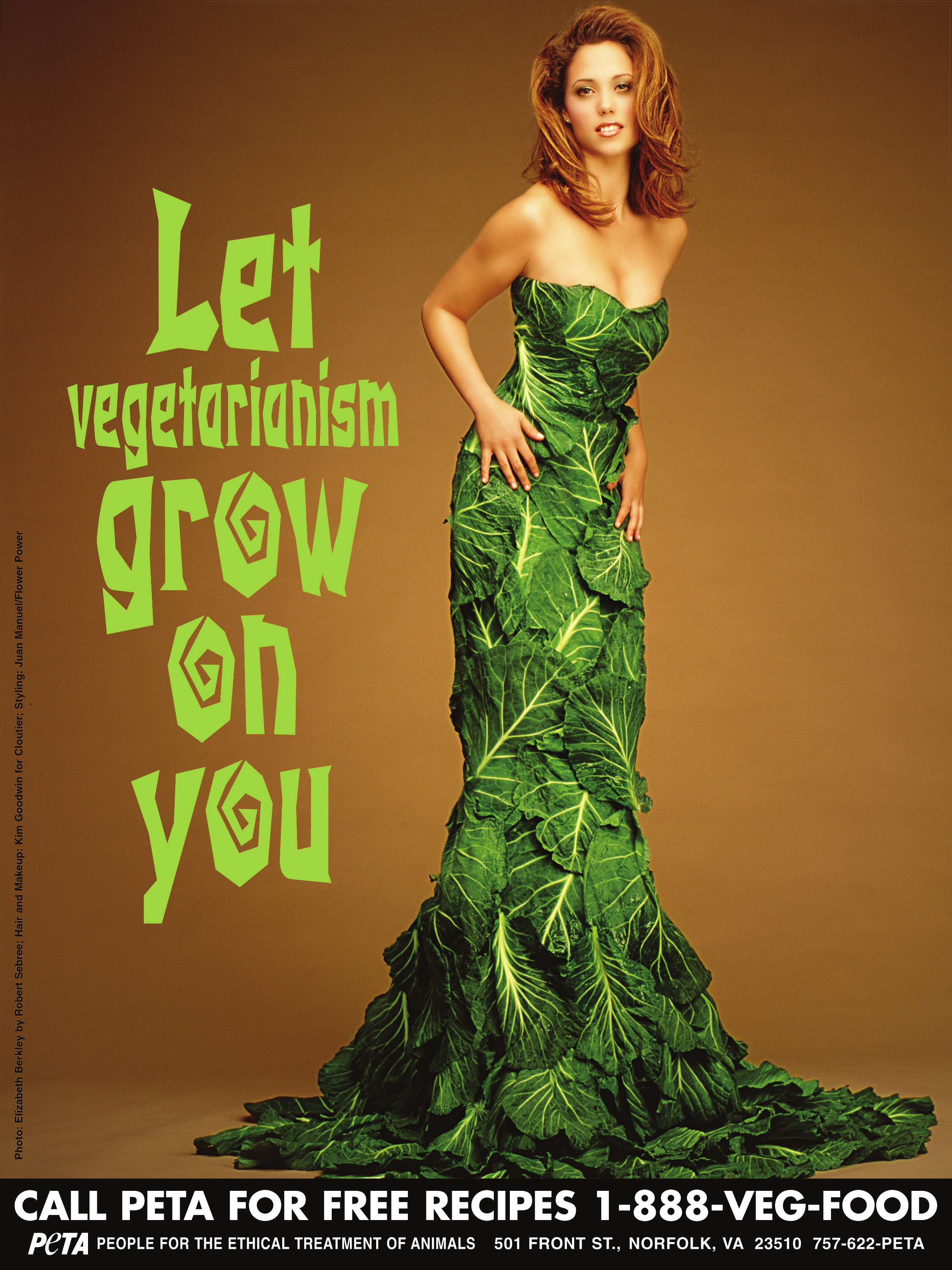 "Let vegetarianism grow on you" campaign for PETA. Model: Elizabeth Berkley